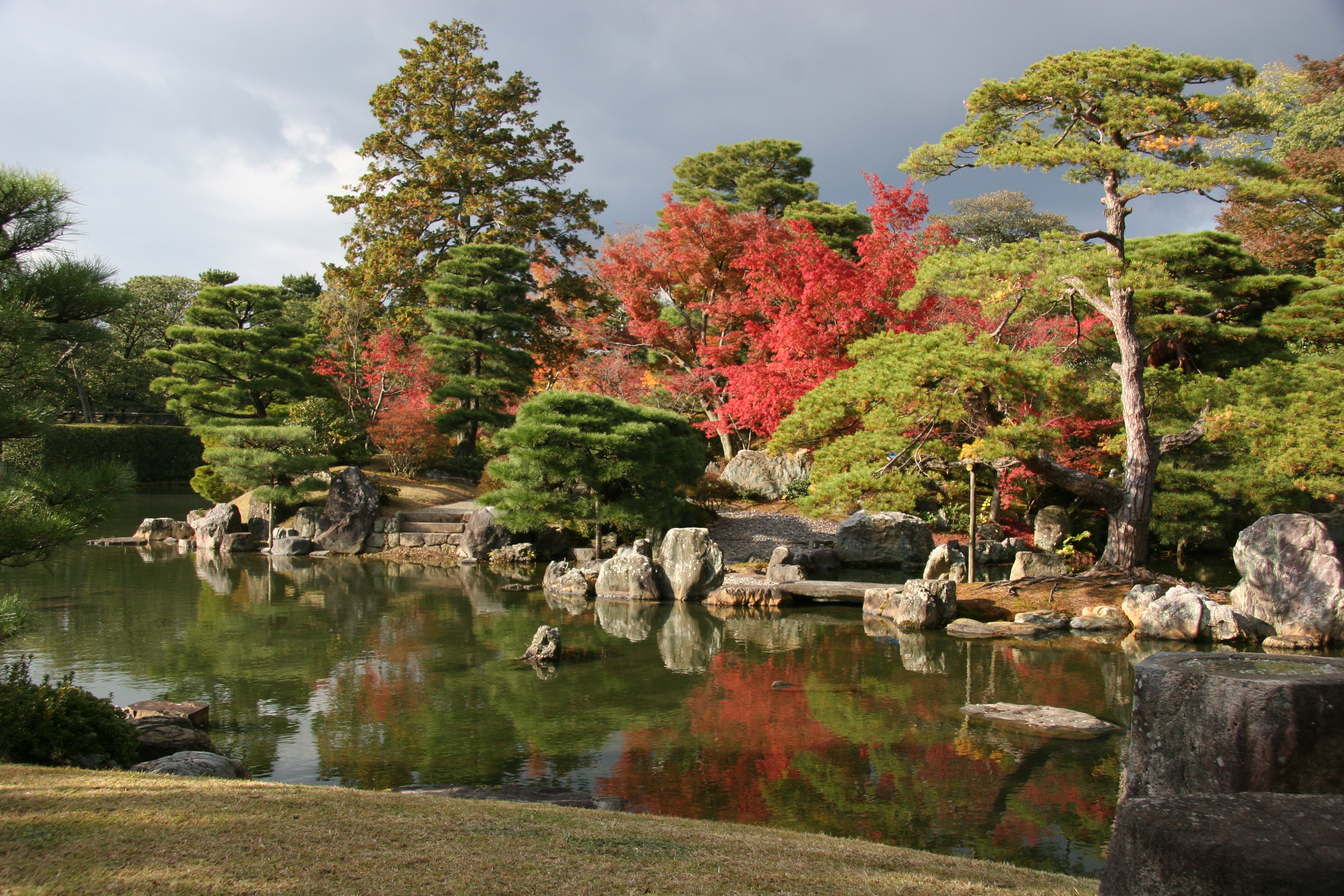 Katsura Rikyu